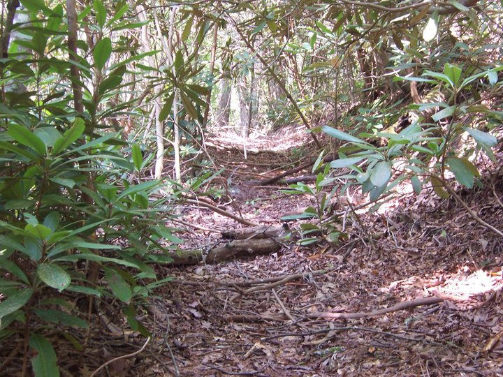 A preserved section of the Great Indian Warpath where it meets the Unicoi Turnpike Trail in the Cherokee National Forest in Tennessee.